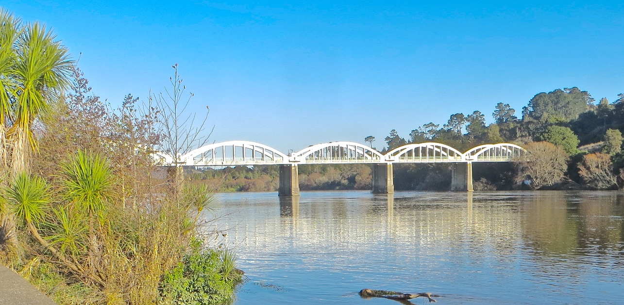 In November 1902 the bridge replaced a punt for crossing the Waikato River.